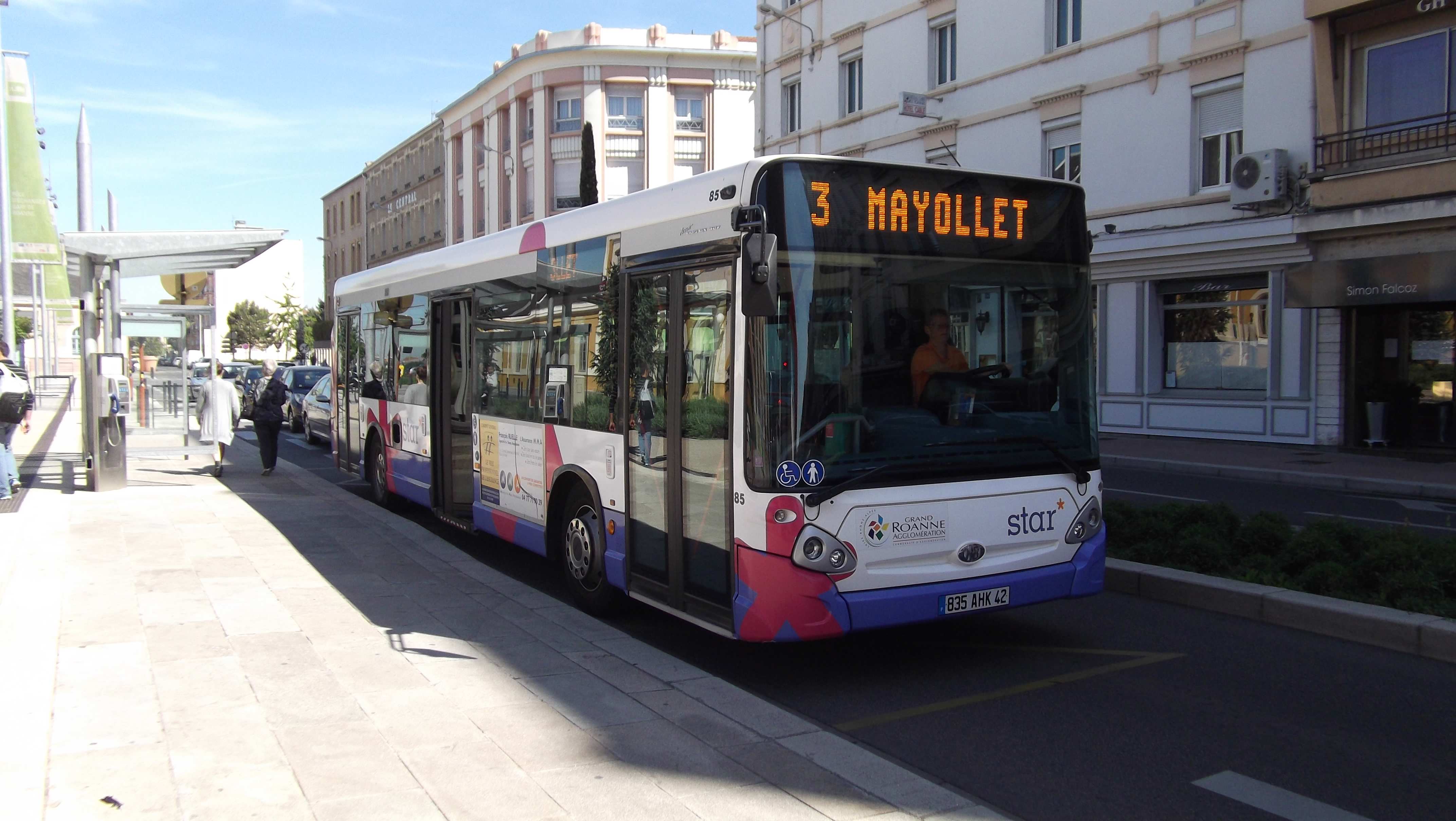 Heuliez GX327 of network STAR